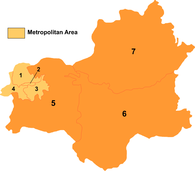 Map of Fushun in Liaoning province